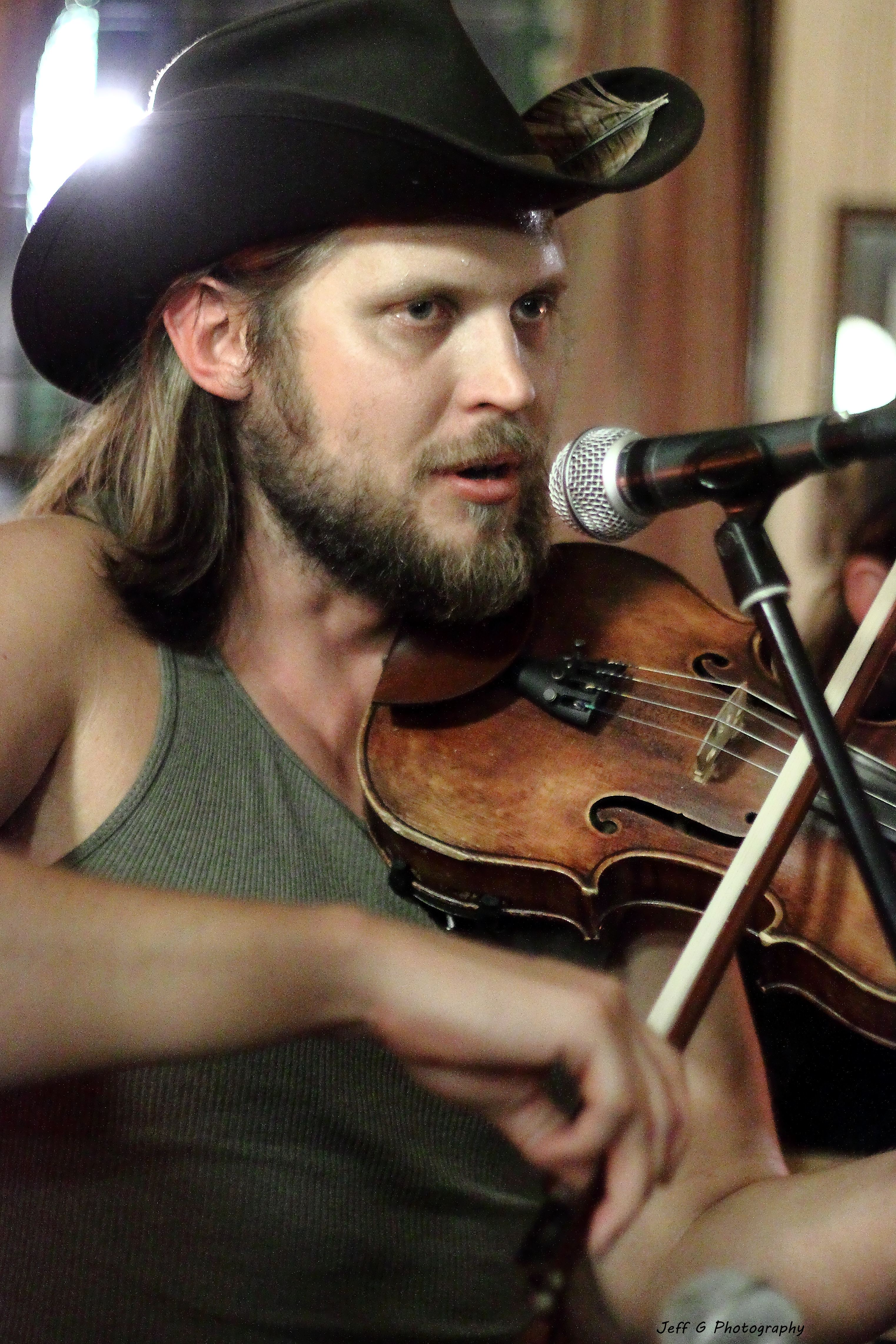 Chance McCoy performing at What's Cookin', The Birkbeck Tavern, Leyton, London. 08SEP11.